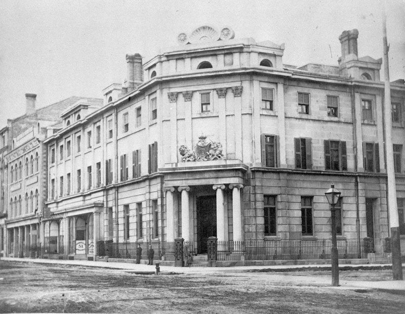 The Bank of British North America, designed by John Howard and constructed in 1845-6, in 1867, on the northeast corner of Yonge and Wellington Streets. Toronto, Canada.